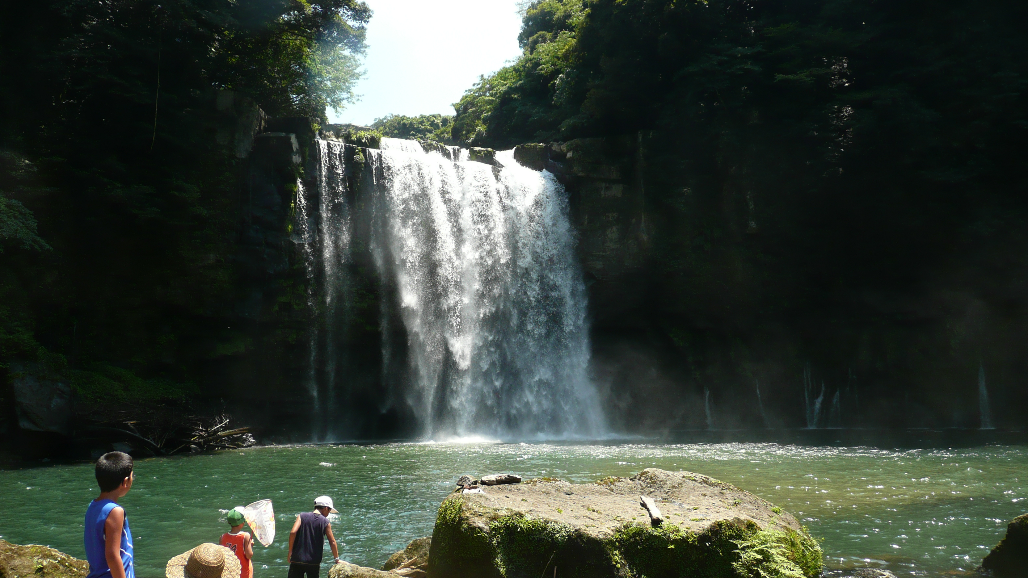 Kamikawa Waterfalls (Kinko Town, Kagoshima, Japan)